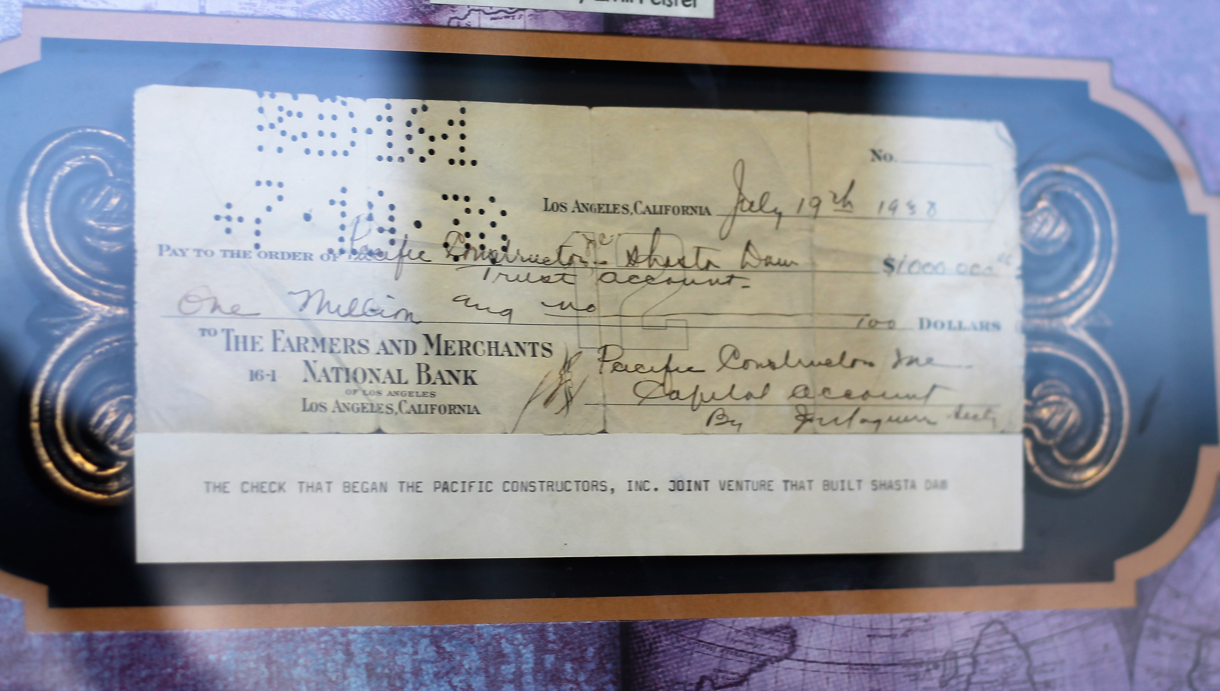 1m check was written to build the Shasta Dam in 1938. Picture is taken from the gallery of reception center of Shasta Dam.